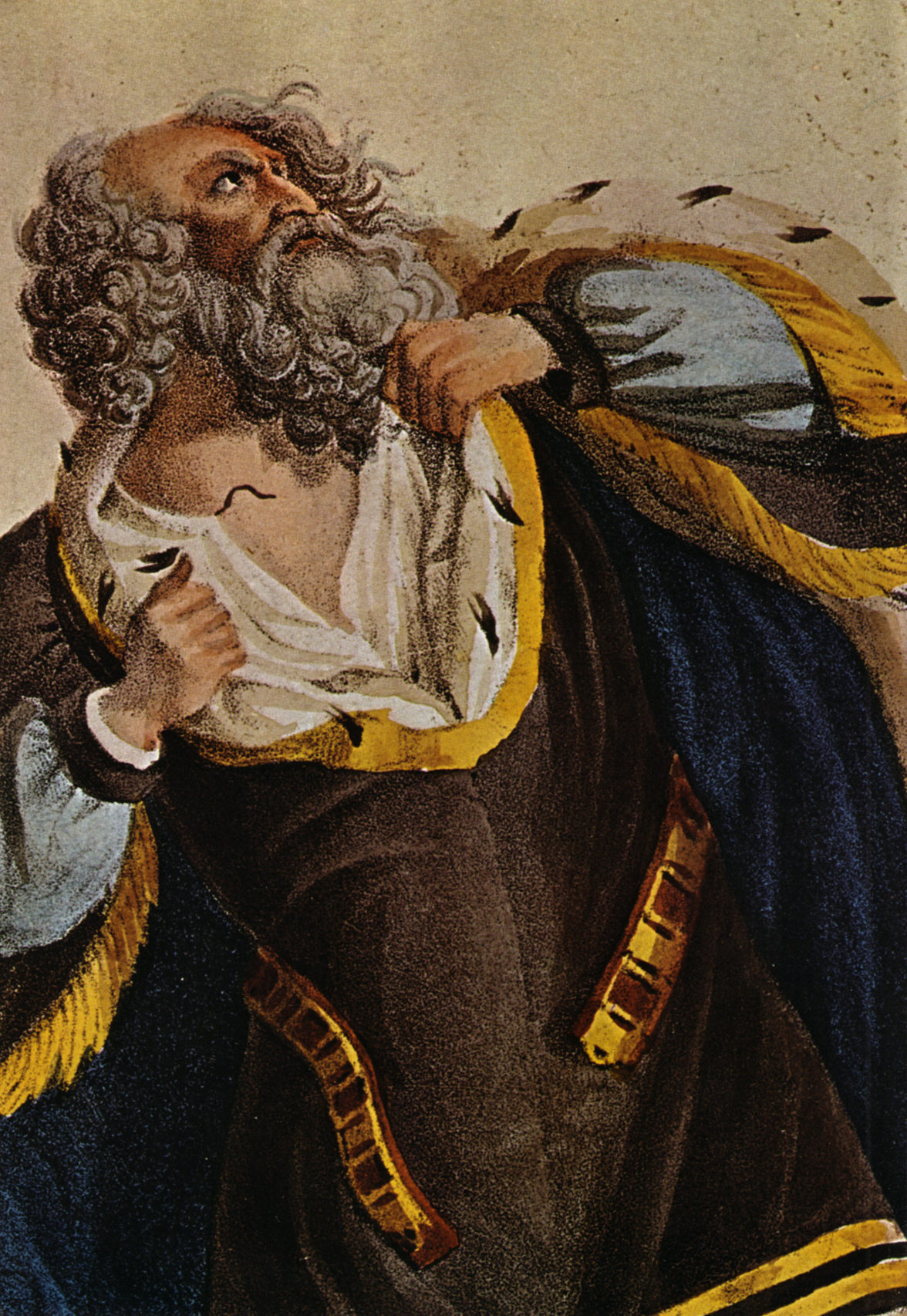 Ludwig Devrient as King Lear, probably made for Jean-François Ducis' production in 1769